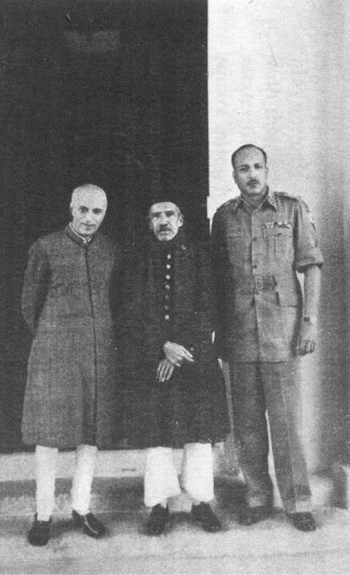 From left to right :Indian Prime Minister Jawaharlal Nehru, Nizam VII of Hyderabad, Joyanto Nath Choudhury the chief of army staff following Hyderabad's accesion to India